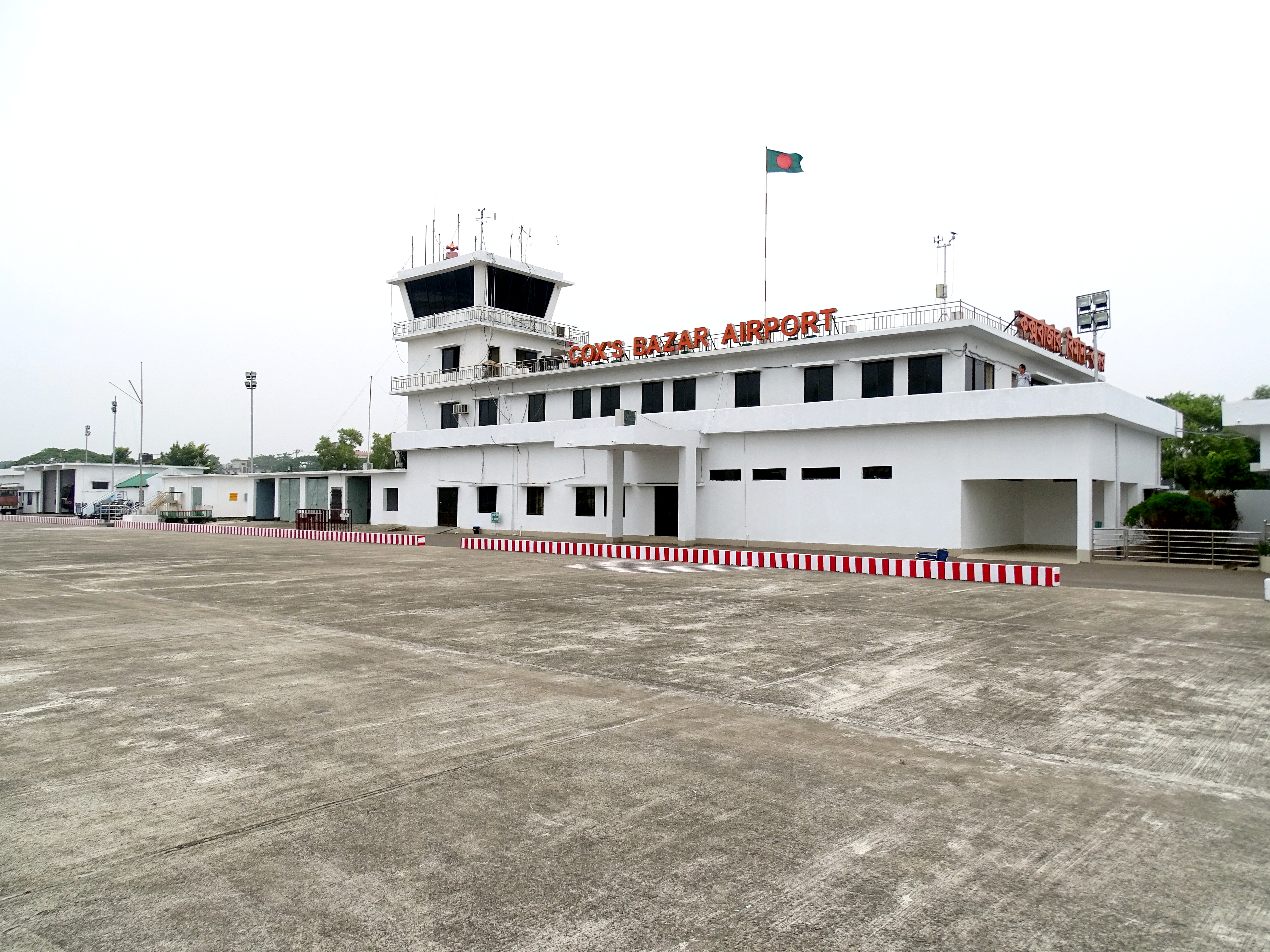 View of Cox's Bazar Airport from the runway.